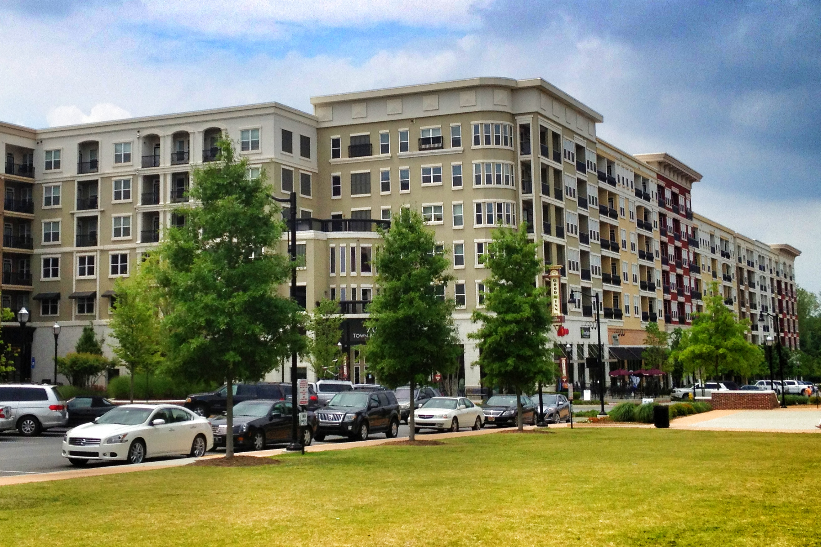 Town Brookhaven, Brookhaven, Metro Atlanta, Georgia